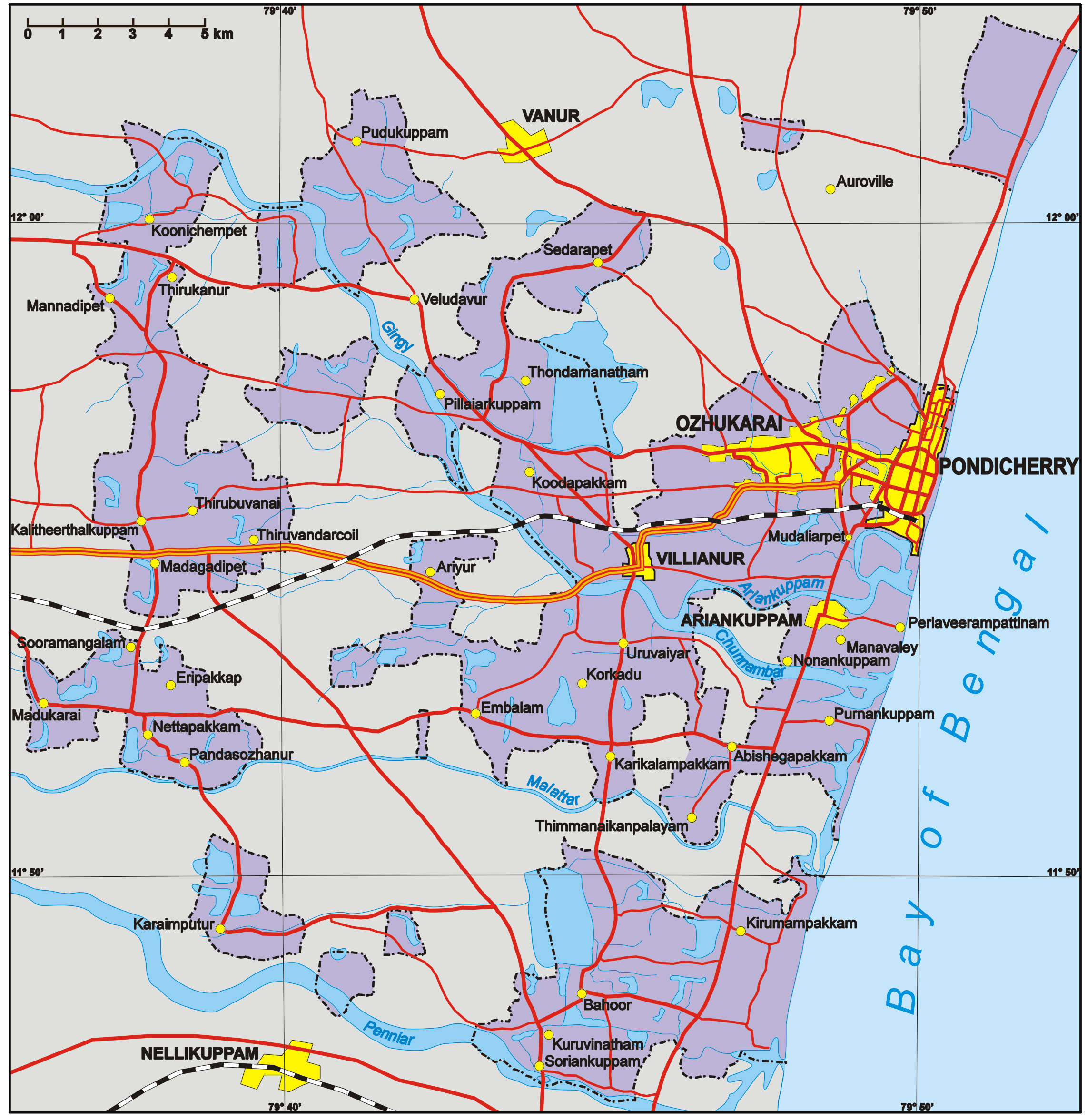 Map of the Puducherry District (areas in purple only), Union Territory of Puducherry, India. Areas in grey are part of the state of Tamil Nadu. The fragmented configuration is a legacy of colonial days when the Territoire de Pondichéry, now Puducherry District, was part of French India.